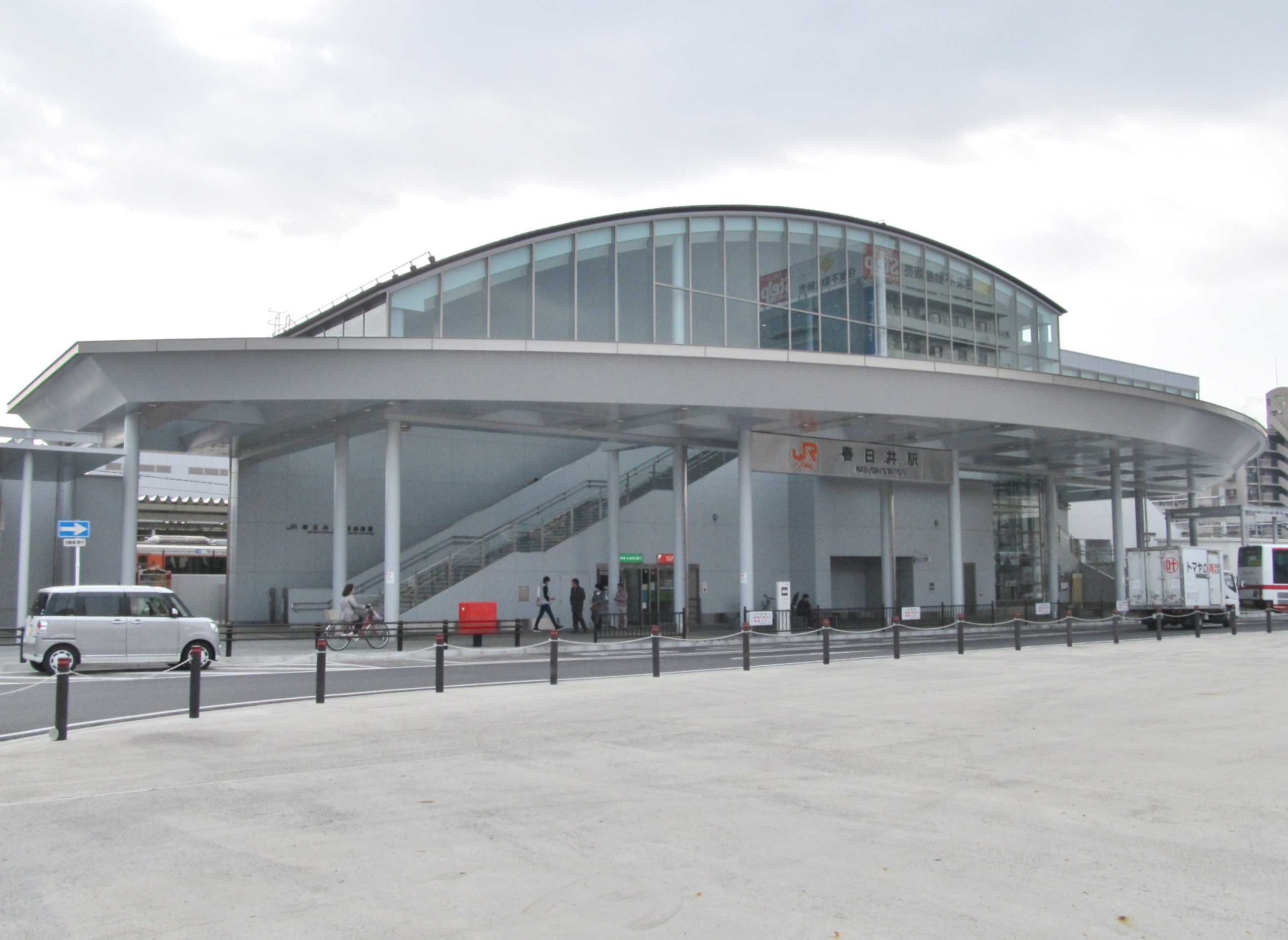 Central Japan Railway Chūō Main Line Kasugai Station North Gate